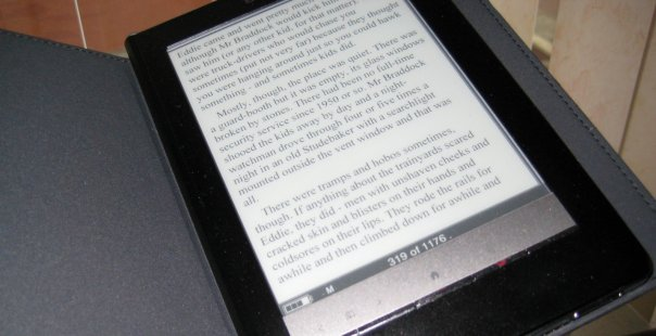 PRS 600 Displaying text